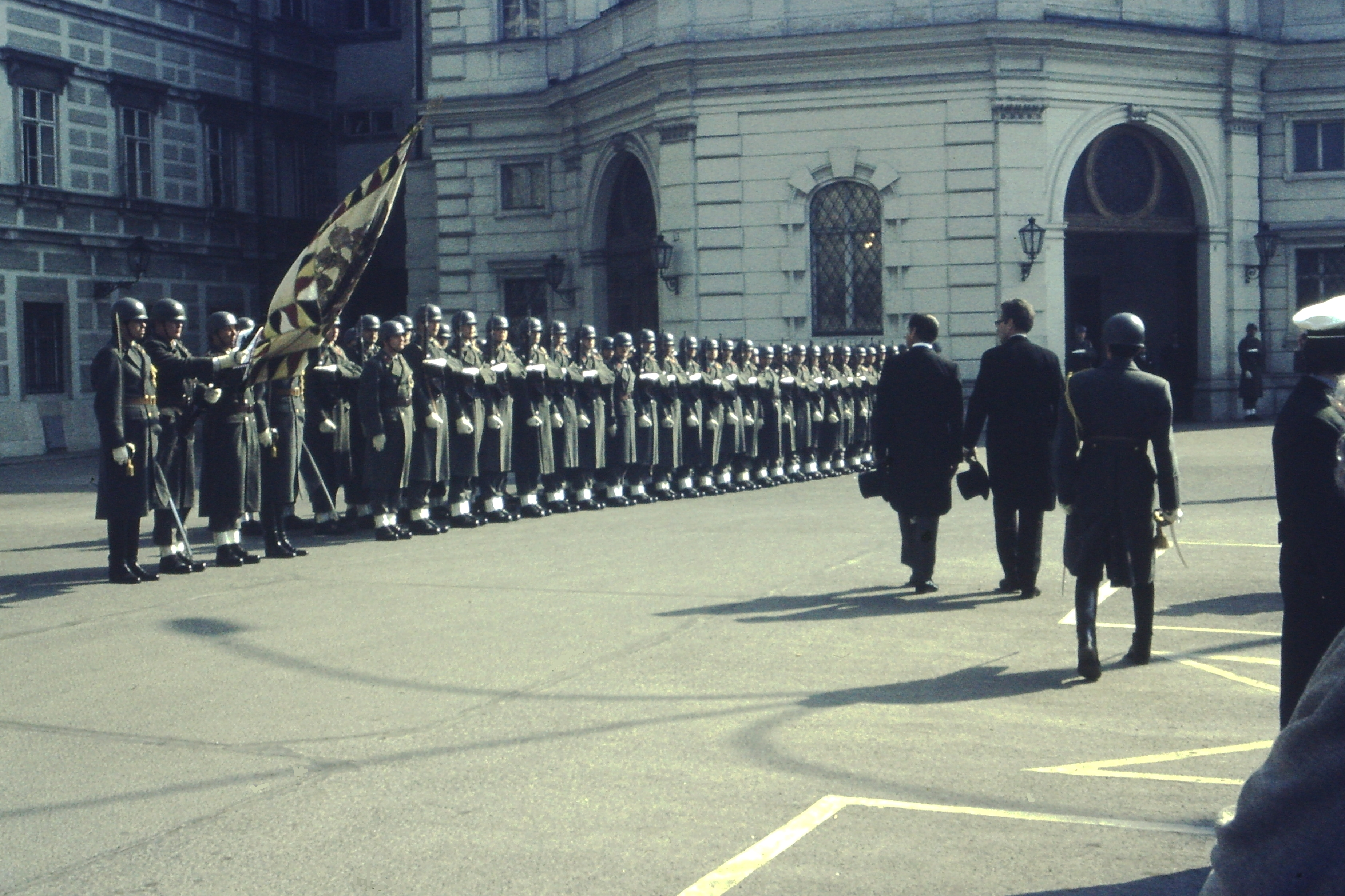 The Gard has taken up position and is espalier; in the background the Office of the President